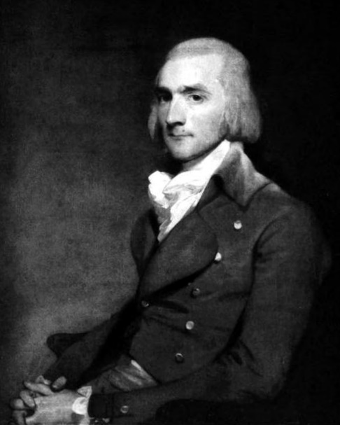 John Jacob Astor photogravure. After painting by Gilbert Stuart